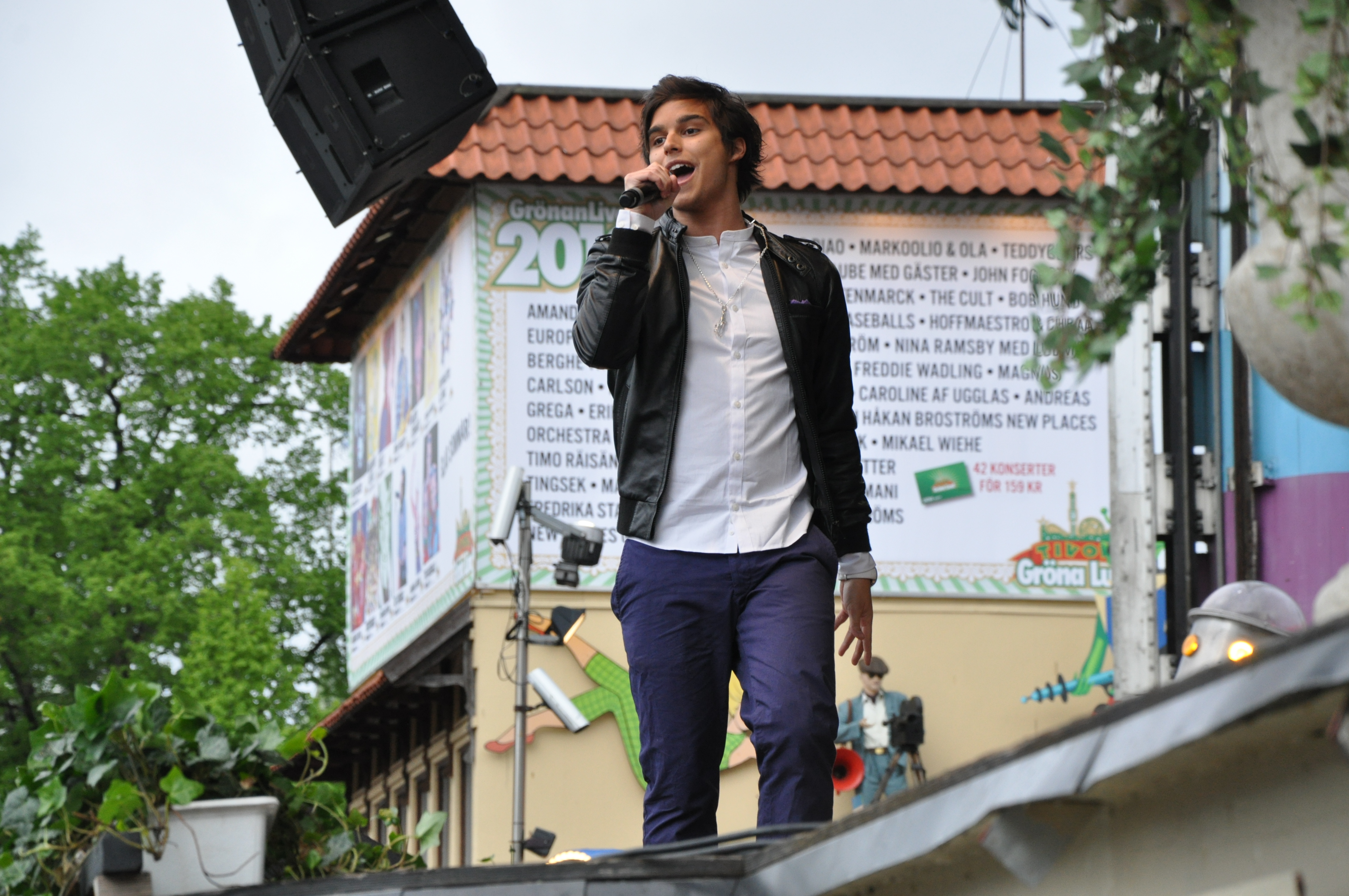 Eric Saade, at Gröna Lund, Stockholm, 23-may-2010